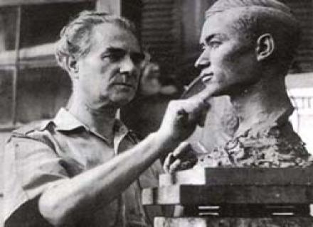 Sculpture par Silpa Bhirasri